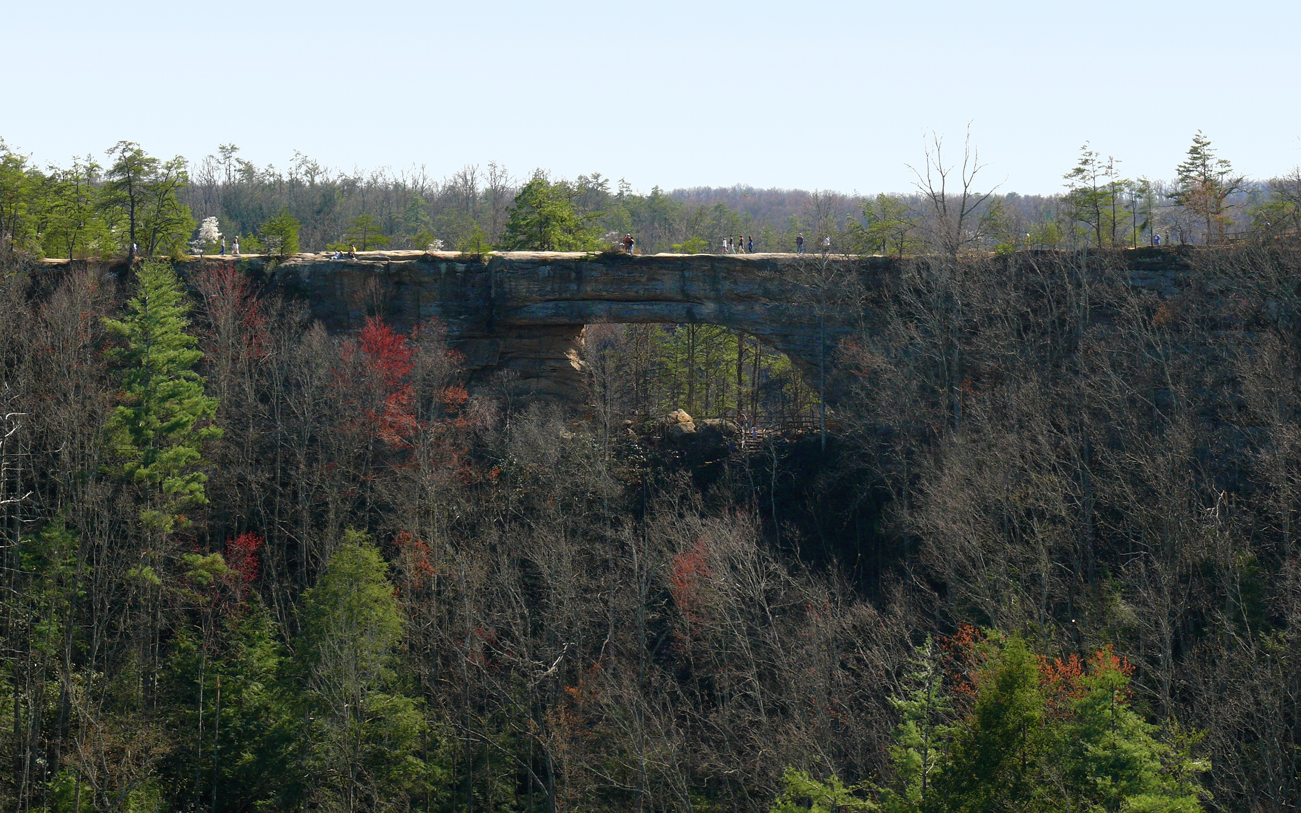 The natural bridge at Natural Bridge State Park, as seen from just over 1000 feet away on Overlook Point.Photo taken with a Panasonic Lumix DMC-FZ50 in Powell County, KY, USA.Cropping and post-processing performed with The GIMP.